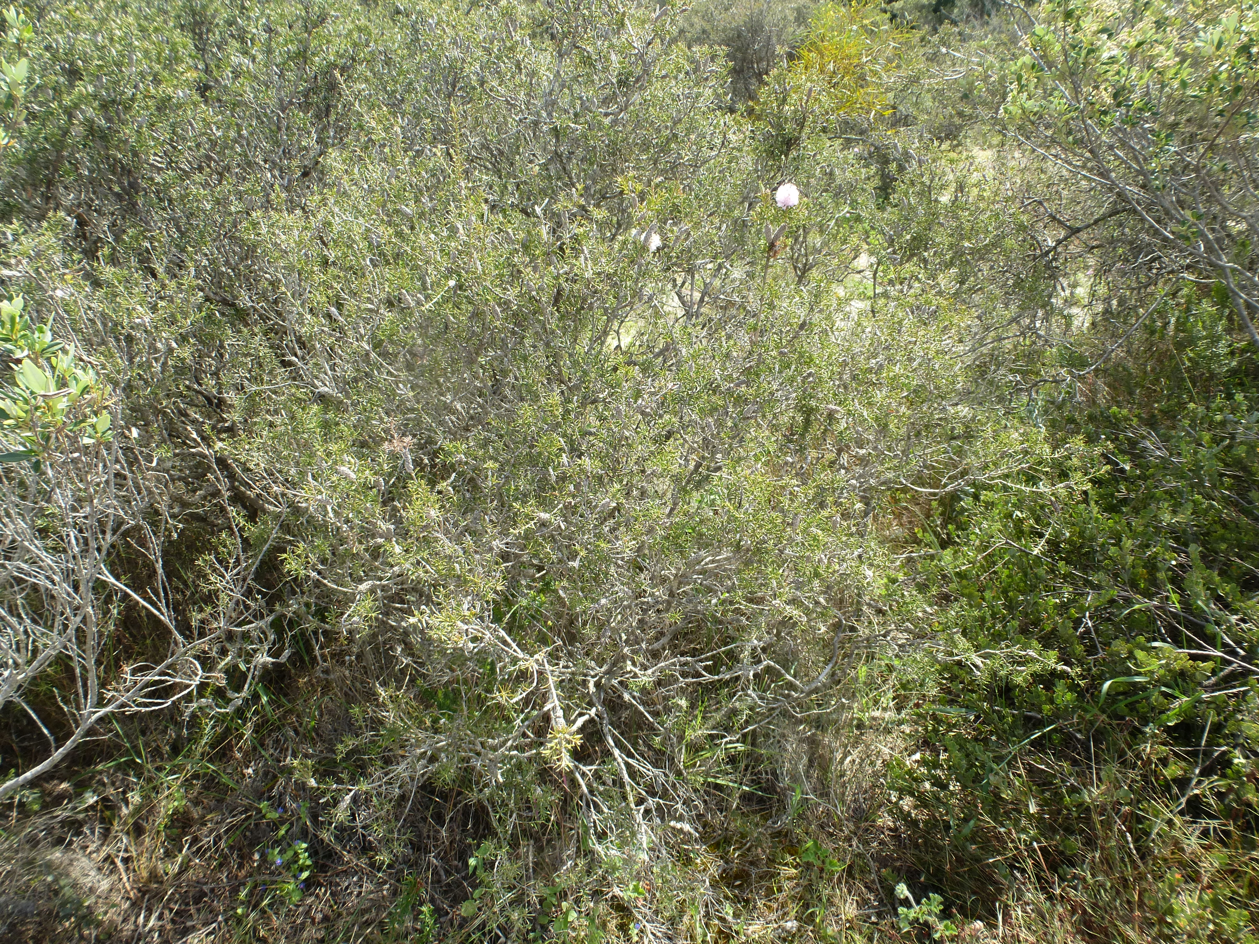 Melaleuca striata growing in the Esperance wetlands